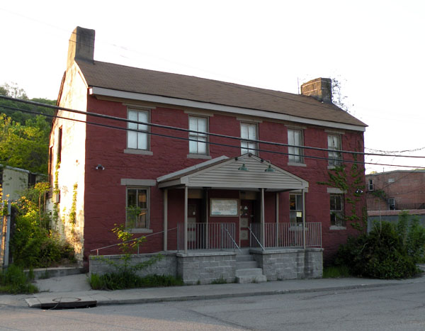 Picture of the Old Stone Inn located at 434 Greentree Road in the West End neighborhood of Pittsburgh, Pennsylvania, on April 30, 2010. The sign on the front of the buildings says, "Old Stone Tavern est. 1756". The "Old Stone Inn" (also called "Coates Tavern") dates to at least the late 1700s, and may date back to the mid 1700s. Its date of construction is not entirely confirmed. There is an old date listed on the cornerstone of the Inn that indicates the year 1756, which would make it the oldest building in the county if that is true. Not only that, but it would make it the oldest building west of the Allegheny Mountains if it is really older than the Fort Pitt Blockhouse by 8 years. It may not only be fascinating for that reason, but also for the possibility that it may be the only structure that still exists from the French settlement days of Pittsburgh before the English came and built Fort Pitt. There are supposedly account ledgers from the Inn that have been found at the Carnegie Library from 1793 to 1796 ([1]), but is this the same building that was there then? I don't know, but the debate about this building's age continues. Whatever the case, it's an old building, it may be the oldest of the existing Inns and taverns in Allegheny County. As a City of Pittsburgh Historic Landmark, it should be preserved for years to come.